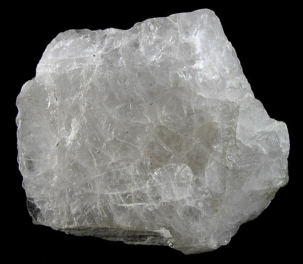 Pollucite Locality: Varuträsk, Skellefteå, Västerbotten, Sweden (Locality at ) Size: 5.6 x 4.8 x 3.2 cm. A very old specimen of rare Swedish pollucite -- (Cs,Na)2Al2Si4O12•(H2O) -- a zeolite that forms a series with analcime. Ex. Richard Hauck Collection.